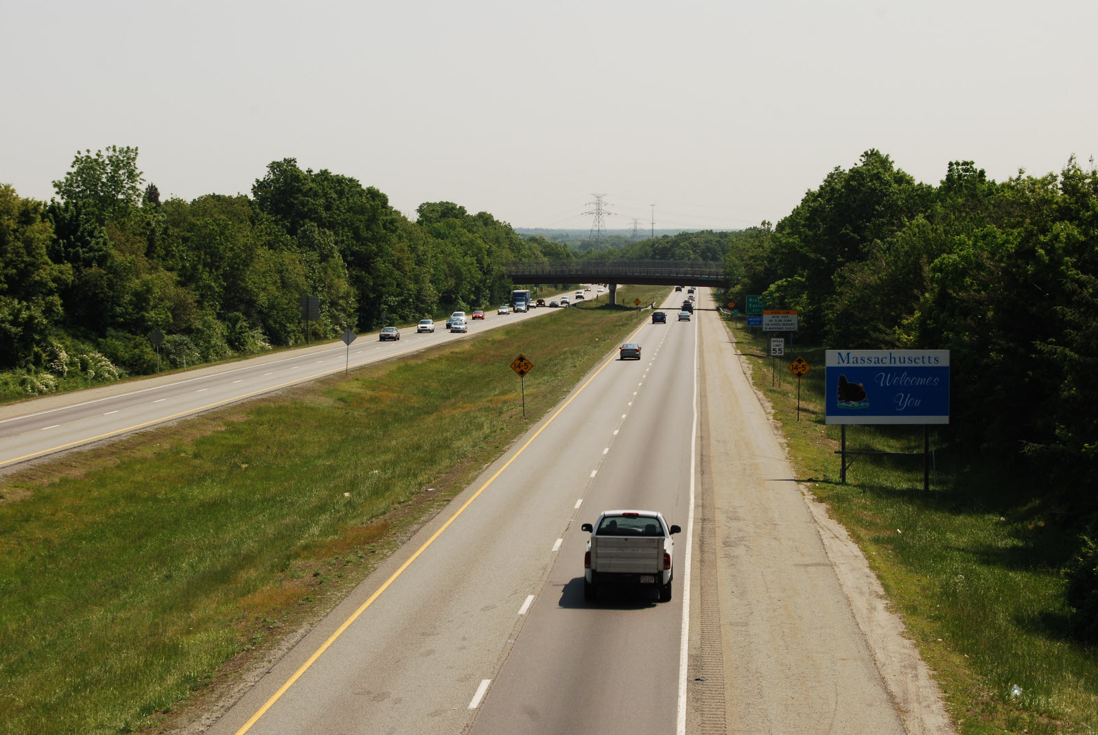 Route 24, Fall River, Massachusetts. Viewed from Stafford Road overpass, looking north.